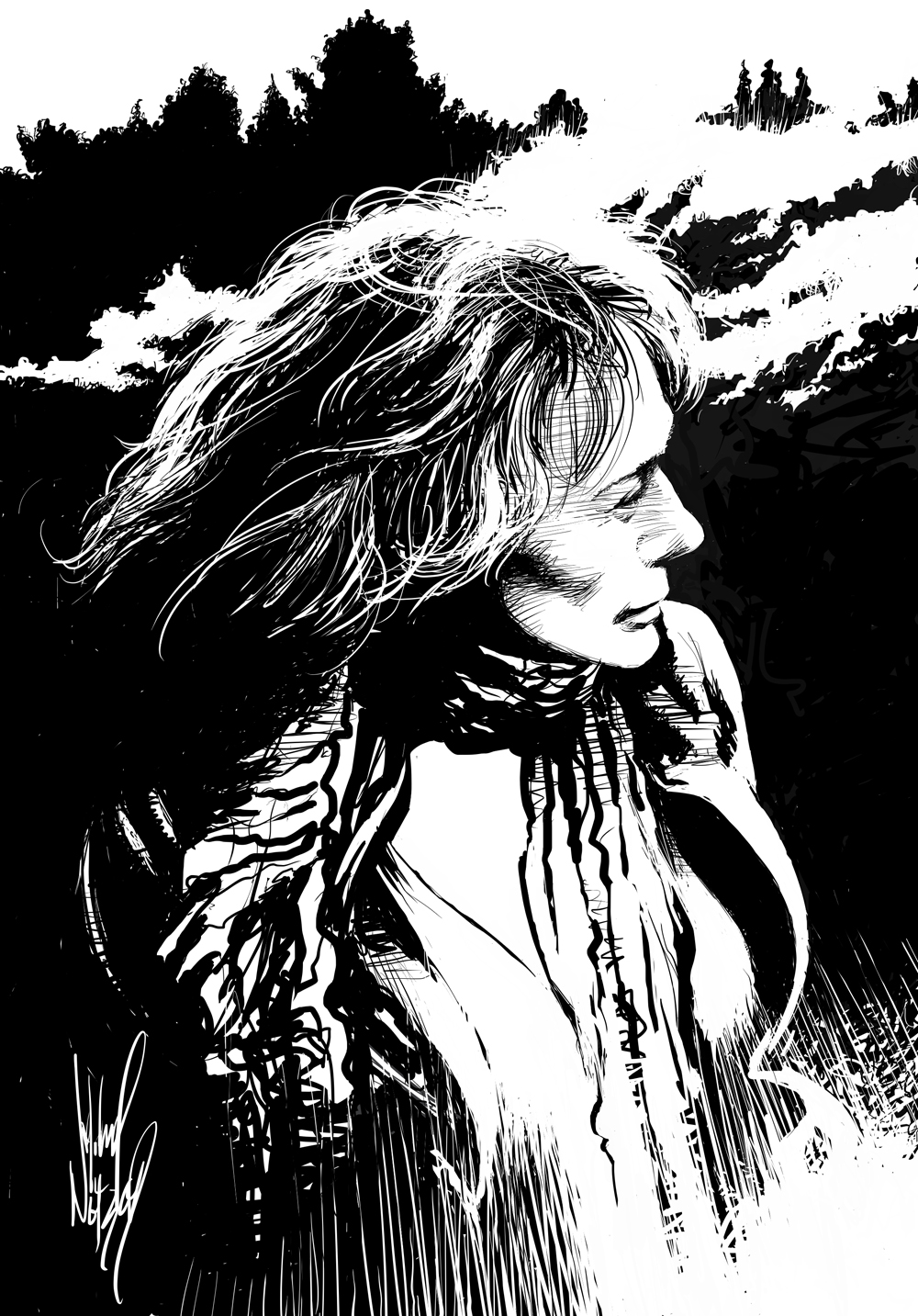 Portrait Illustration of artist Jeffrey Catherine Jones by colleague Michael Netzer for his Portraits of the Creators Sketchbook.